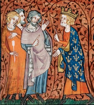 Henry of France asking aid of Duke Robert